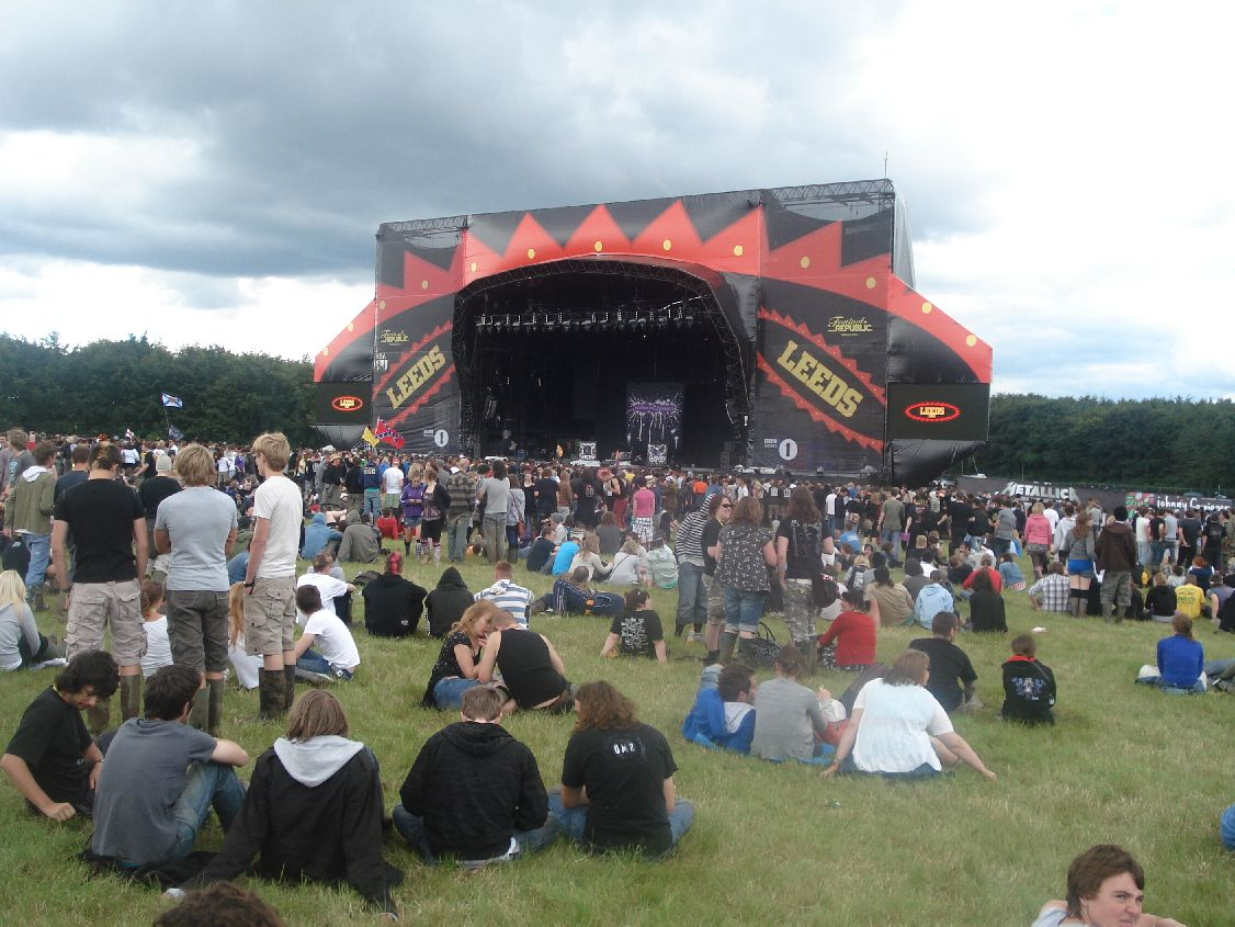 Main stage at Leeds festival 2008 - day 2